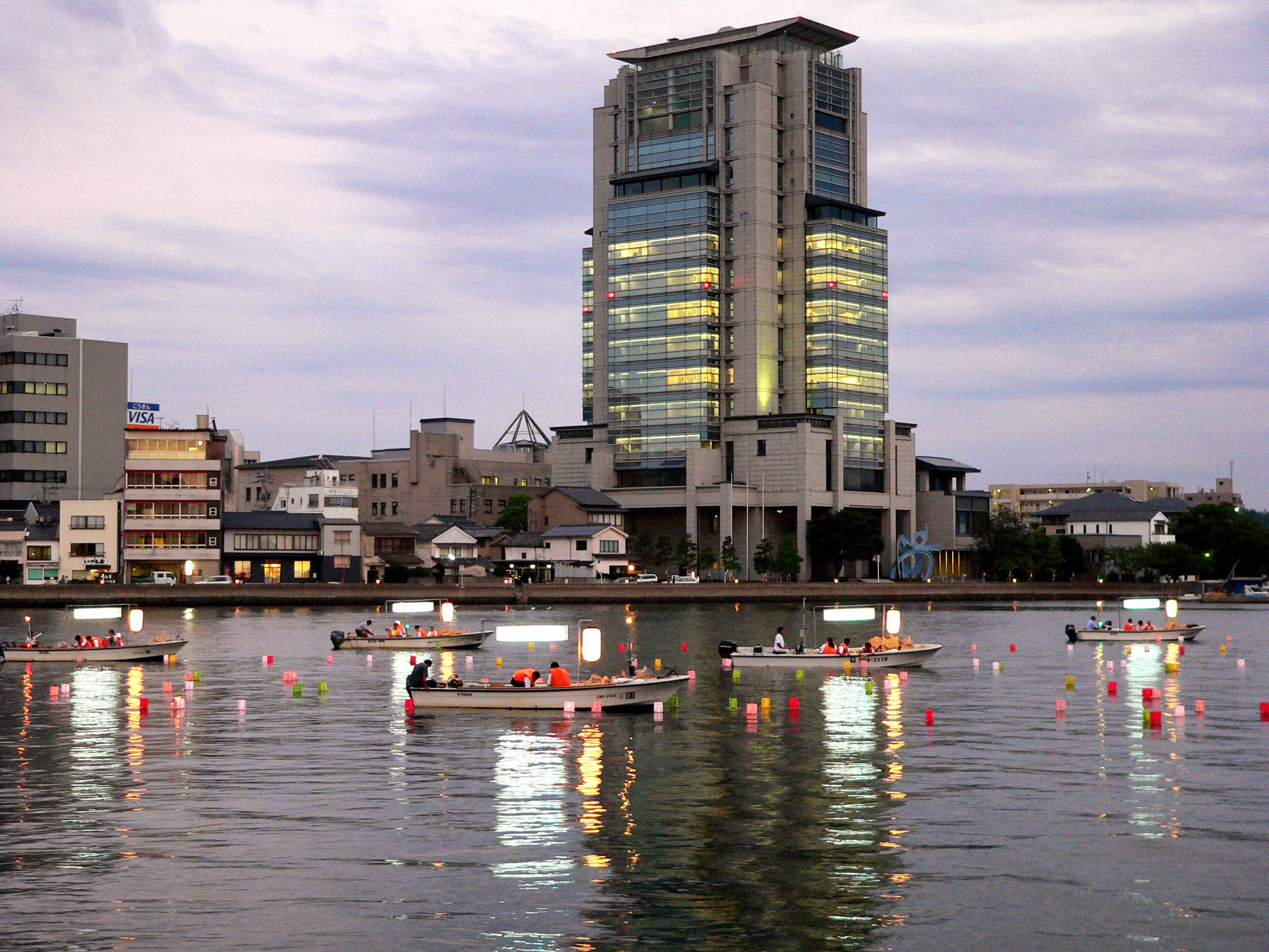 People in boats placing lanterns onto Lake Shinji at the end of the Obon festival. Matsue city is in the background. Photographer: James Alexander Jack Date: 16th of August, 2007 Location: Matsue, Japan.